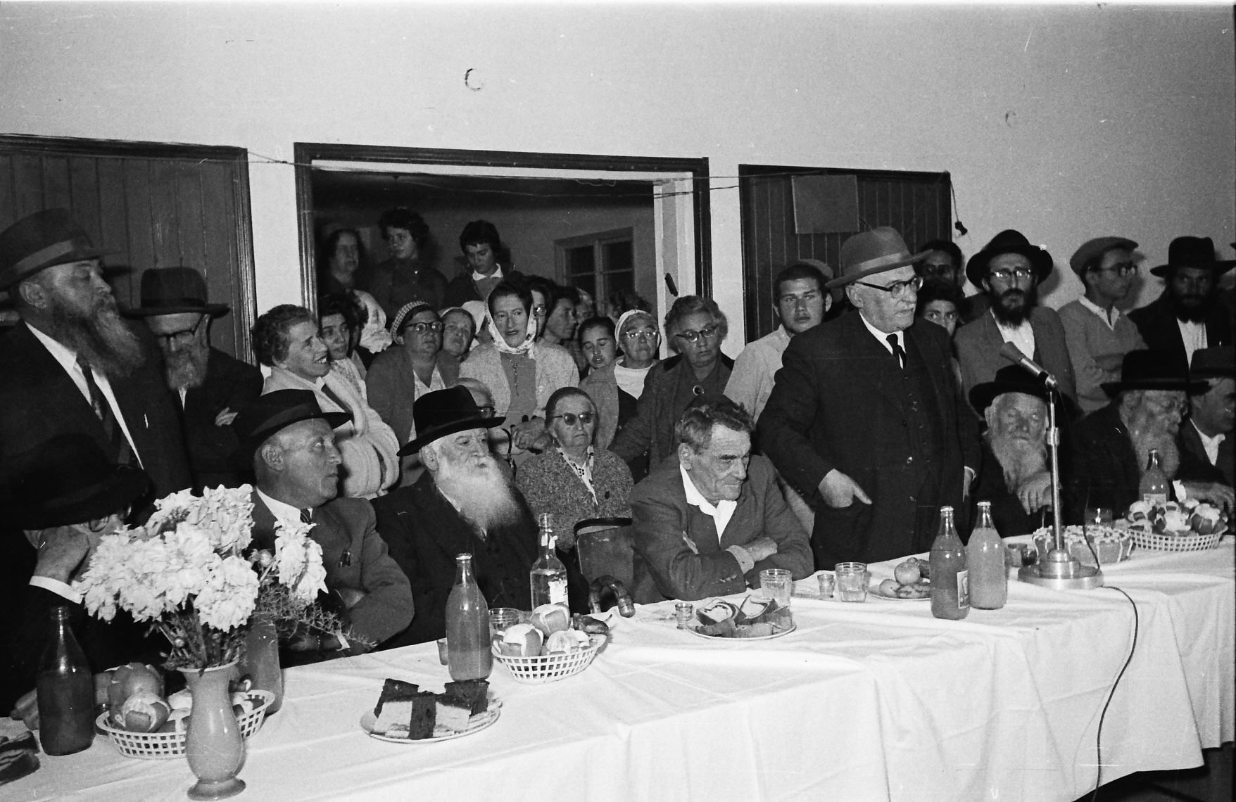 People of Israel